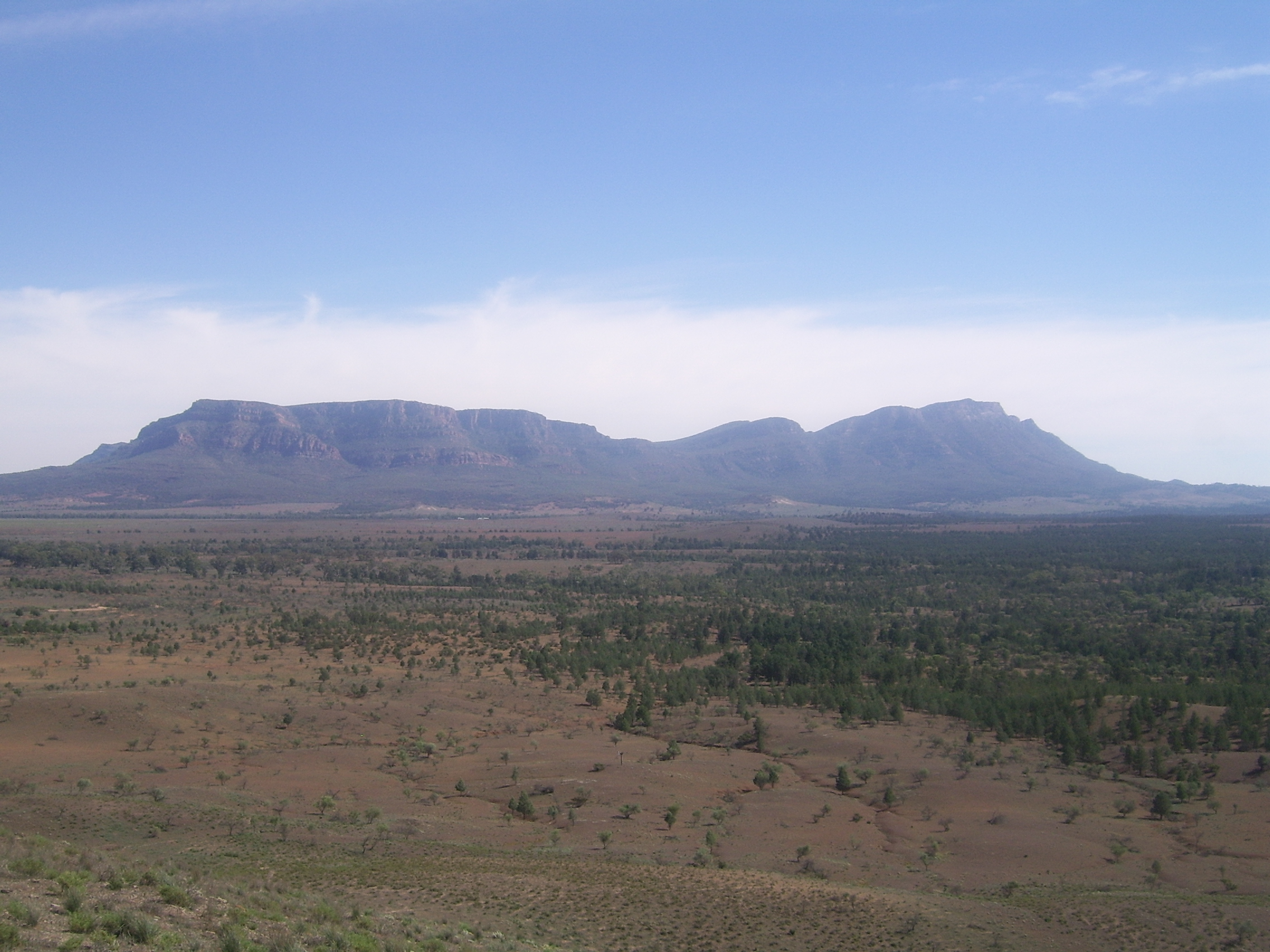 Wilpena Pound in South Australia, west side, viewed from Elders Range